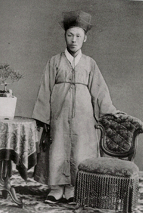 Kim Ok-gyun in Nagasaki, Japan